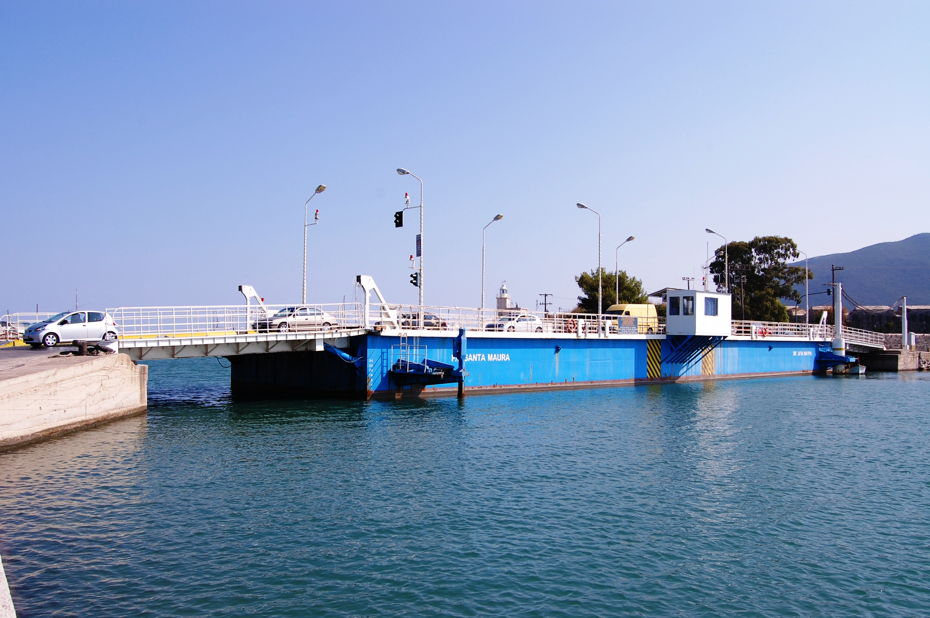 Shipbridge "Santa Maura", over the Canal from Lefkada in Greece